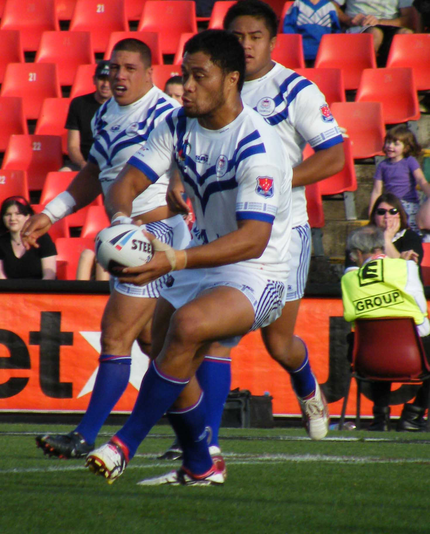 RLWC 2008 - Samoa v France at Penrith. Samoan second row forward Tony Puletua.